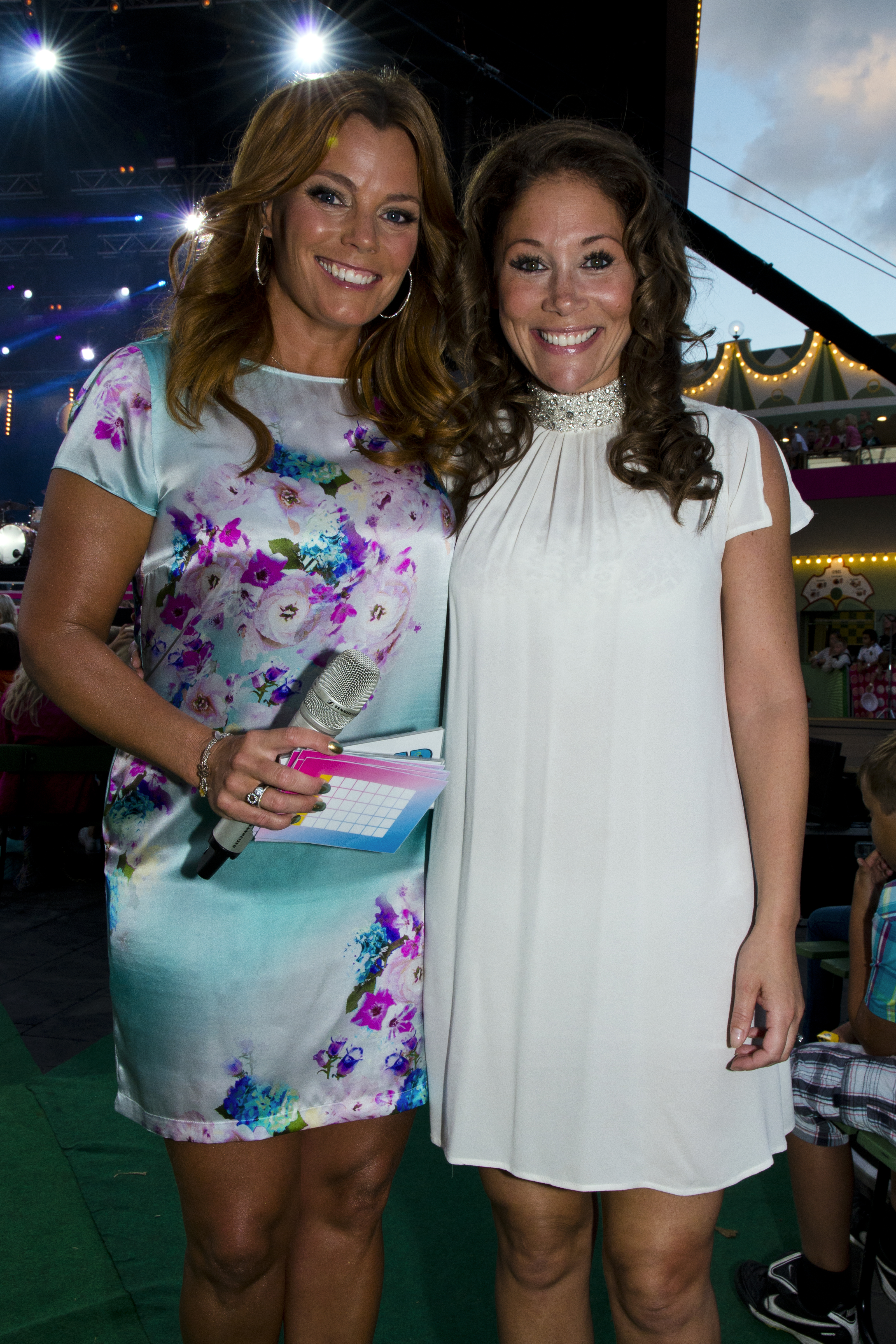 Gry Forssell & Tilde de Paula at Sommarkrysset, Gröna Lund (Stockholm) 2013